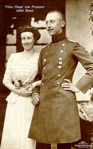 Prince Oscar of Prussia with his wife, countess Ina Marie von Bassewitz, in 1910-1913